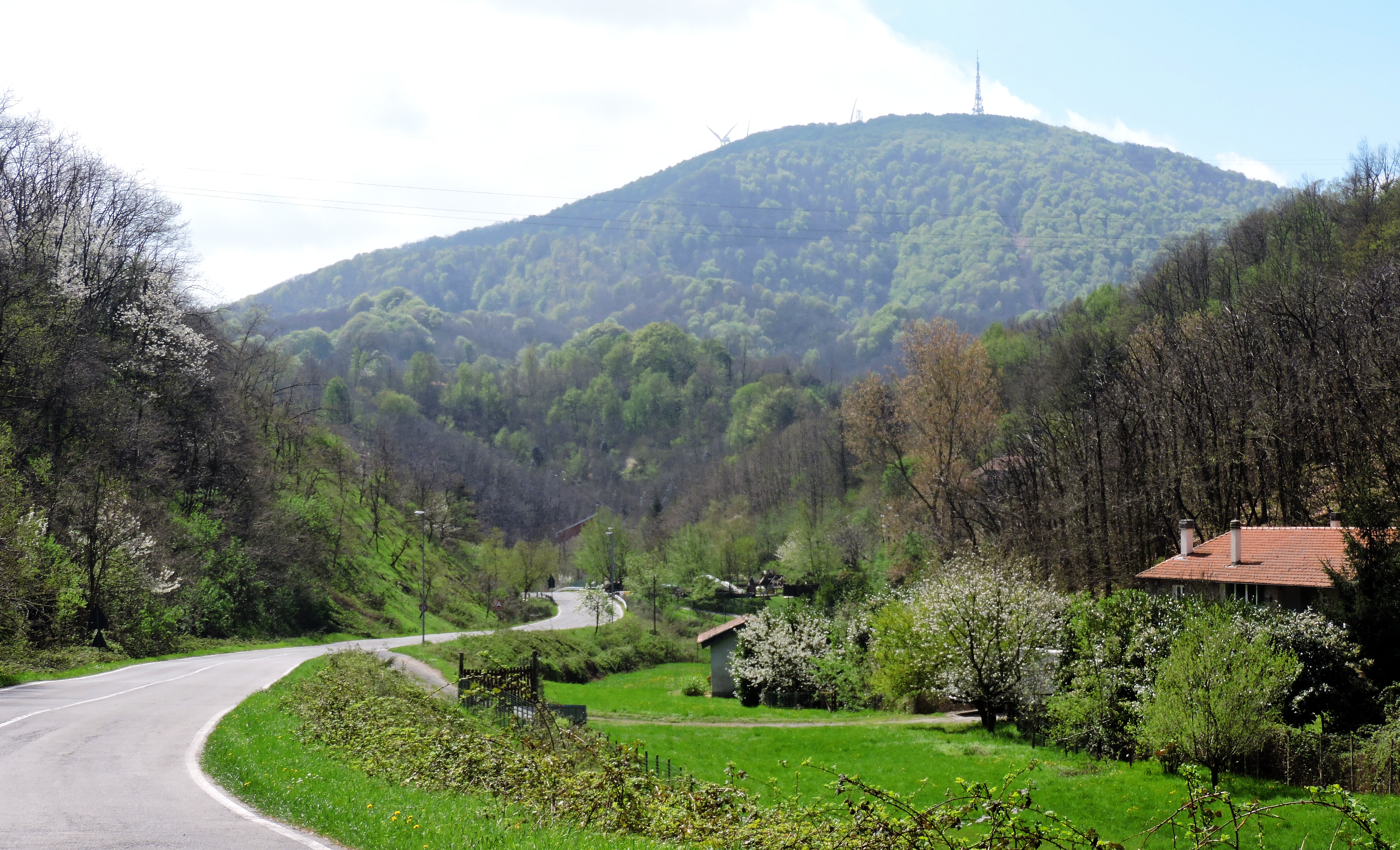 Monte Burot (Ligurian Prealps, SV, Italy) from East